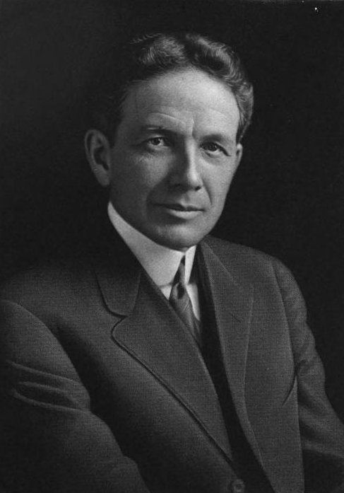 Photograph of William Crapo Durant from the following book: Title History of Genesee county, Michigan, her people, industries and institutions, Volume 2 of History of Genesee County, Michigan, Her People, Industries and Institutions, Edwin Orin Wood Authors Edwin Orin Wood, William Vernon Smith Publisher Federal publishing company, 1916 Link to book on Google Books